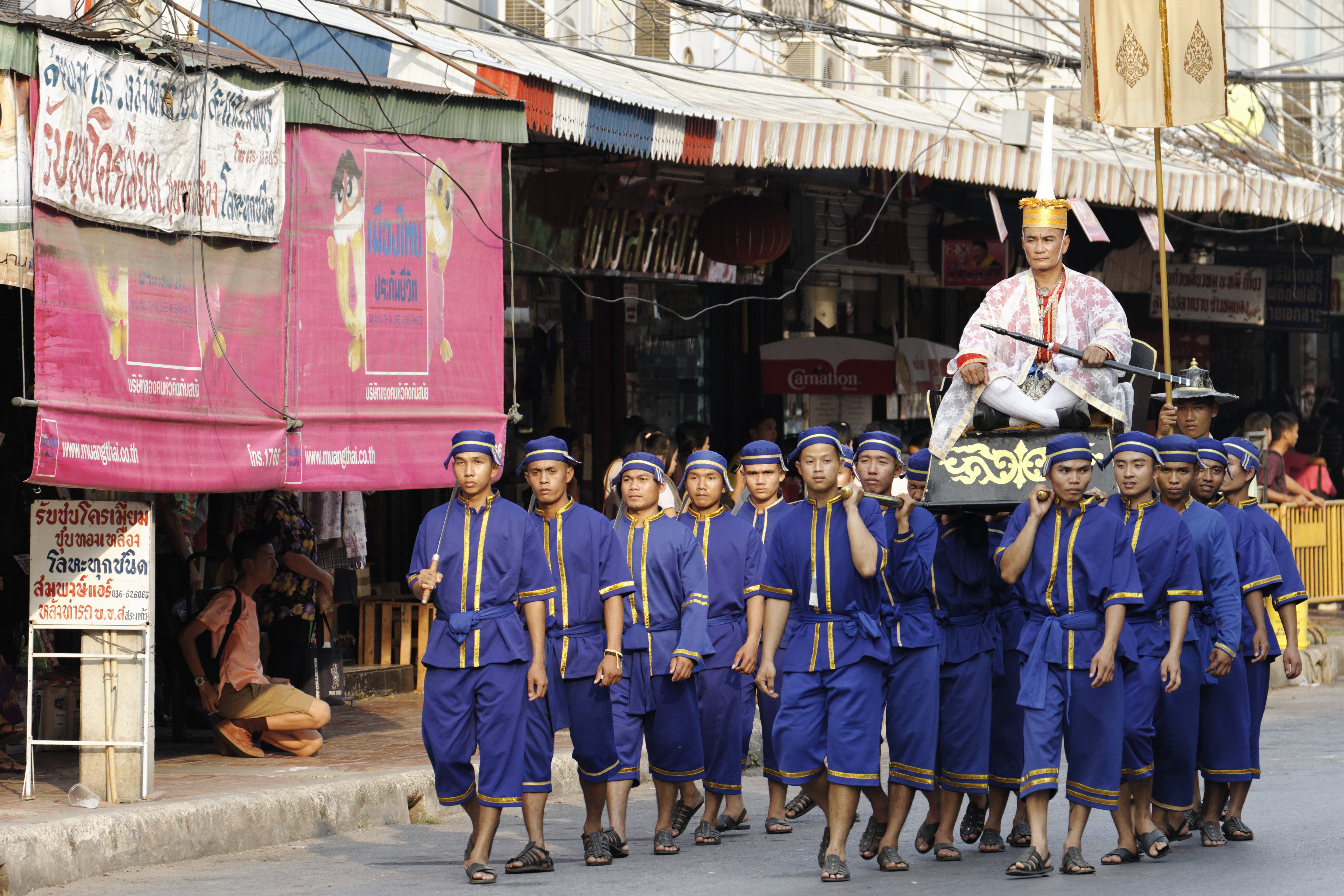 King Narai Fair, Lopburi, Thailand